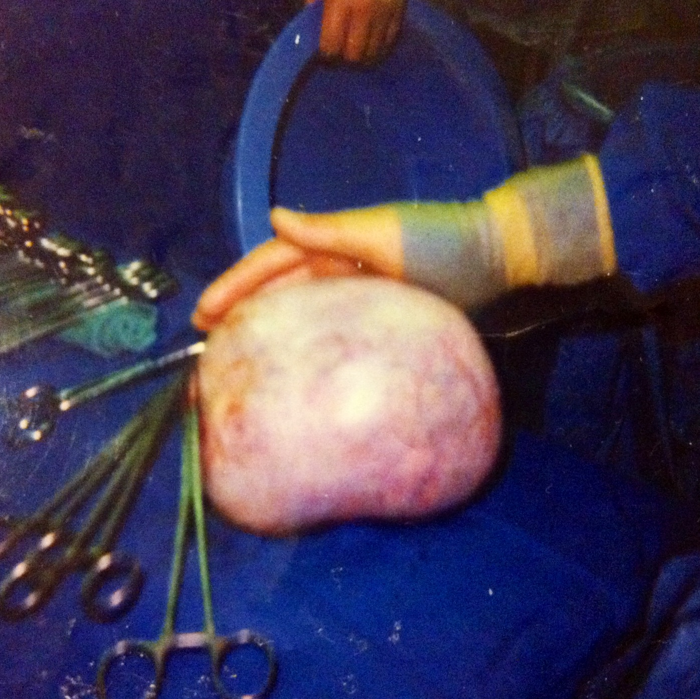 Dermoid ovarian cyst, ~60 cm circumference. Emergency cystectomy and unilateral oophorectomy preformed on 16 year old female admitted with abdominal pain and bleeding. Lab results benign.